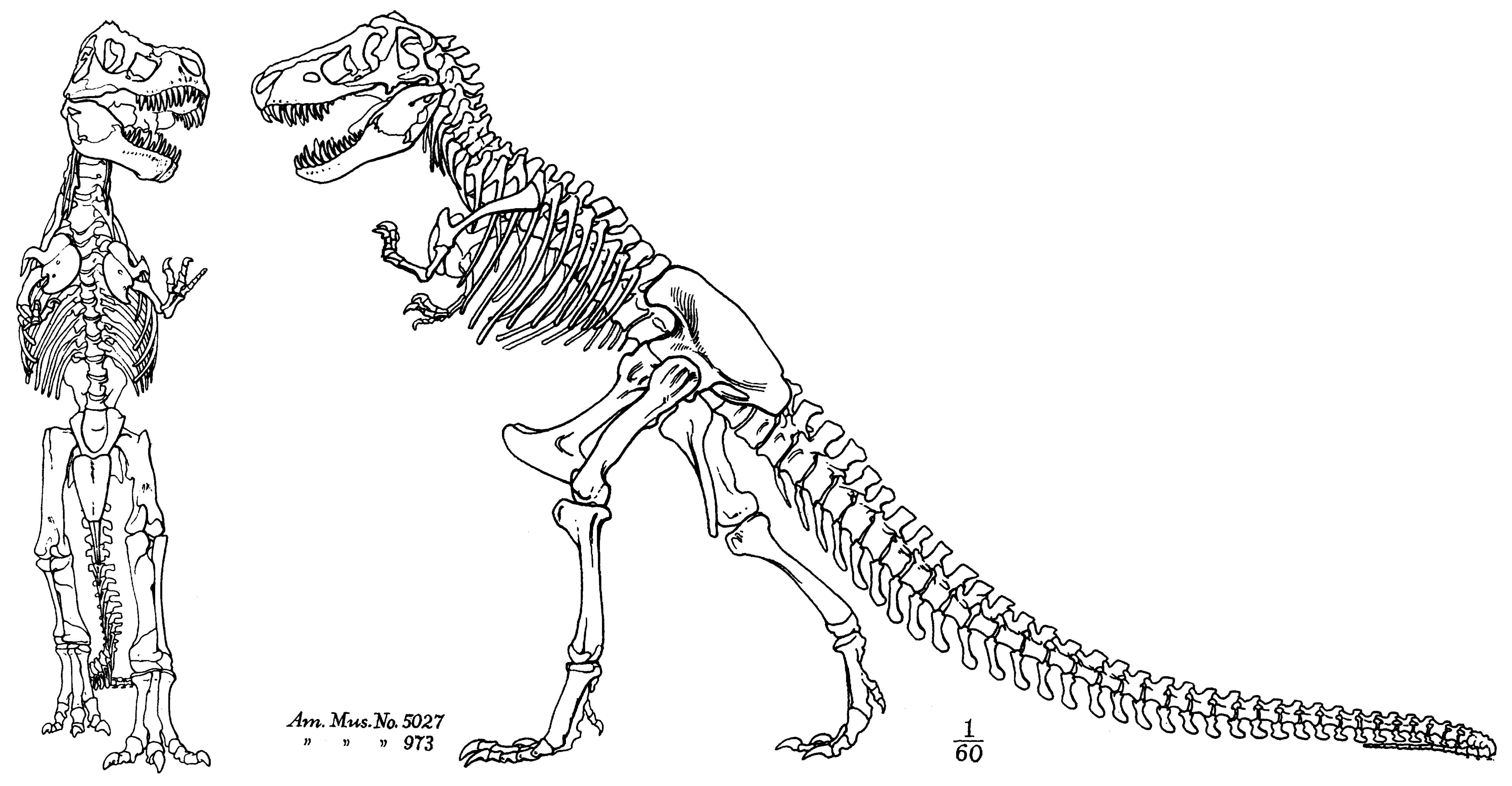 Tyrannosaurus skeletal diagram, which was the basis for the cover of the novel Jurassic Park and subsequently the logo of the movies.[1]